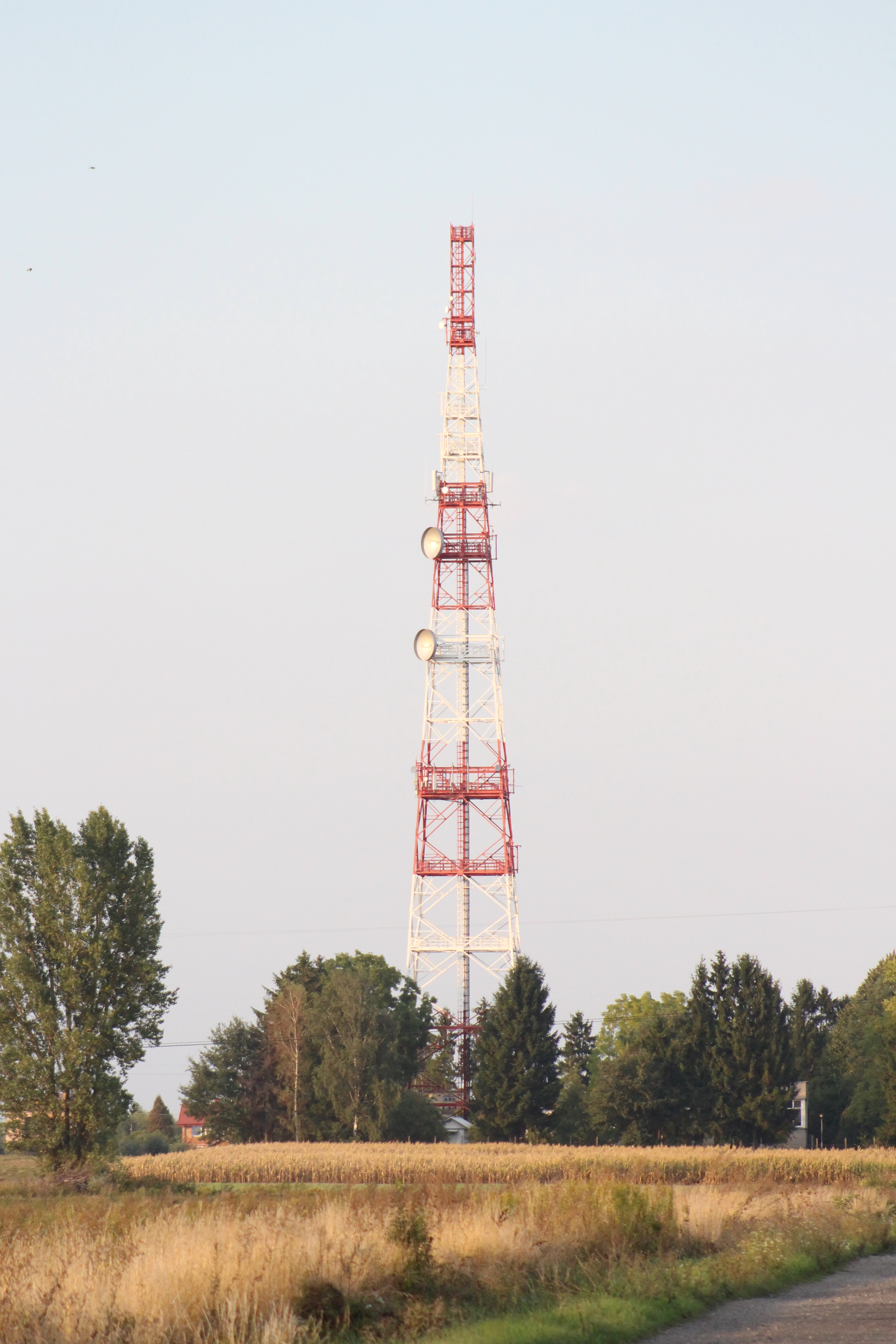 SLR Wiejca